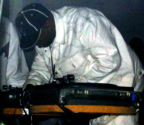 Hip hop producer and DJ Battlecat adjusting a turntable prior to his DJ set performance at the 1580 AM KDAY 20th anniversary event at Club Ibiza in Whittier, California on December 13, 2003.The photograph was taken with a Canon PowerShot A70 camera and edited using ArcSoft PhotoStudio 5.5